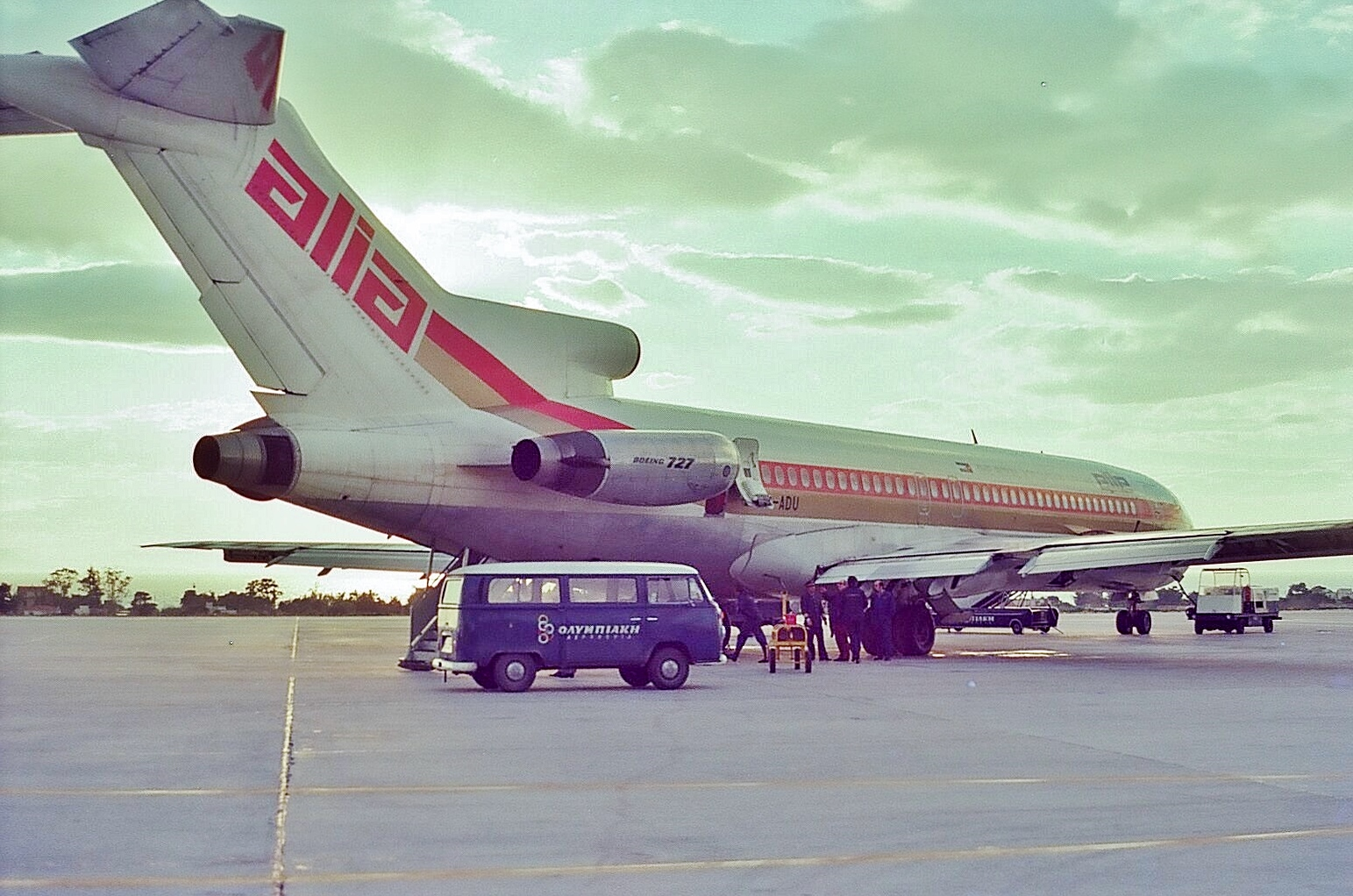 Boeing 727-2D3 JY-ADU Alia, ATH 15.2.1977.This aircraft crashed on 14 March 1979 on a go-around at Doha Airport. Of 64 occupants 45 were killed.